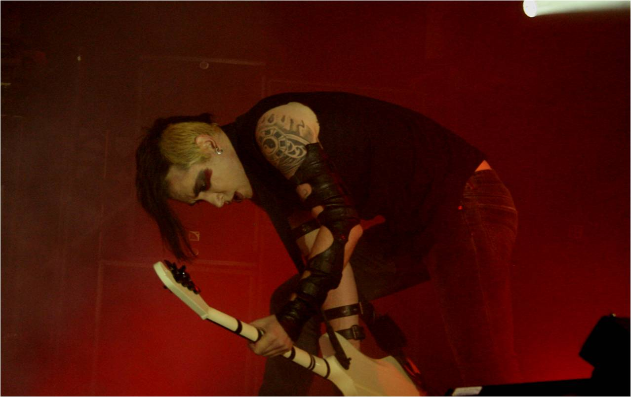 Marilyn Manson Band at Quart festival 2009, Kristiansand, Norway